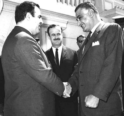 Syrian President Nureddin al-Atassi (first from left) shaking hands with Egyptian President Gamal Abdel Nasser (third from left). Defense Minister Hafez al-Assad in the center. The three are meeting in Cairo to discuss the War of Attrition and the issues surrounding Israel's occupation of Arab territories during the 1967 War